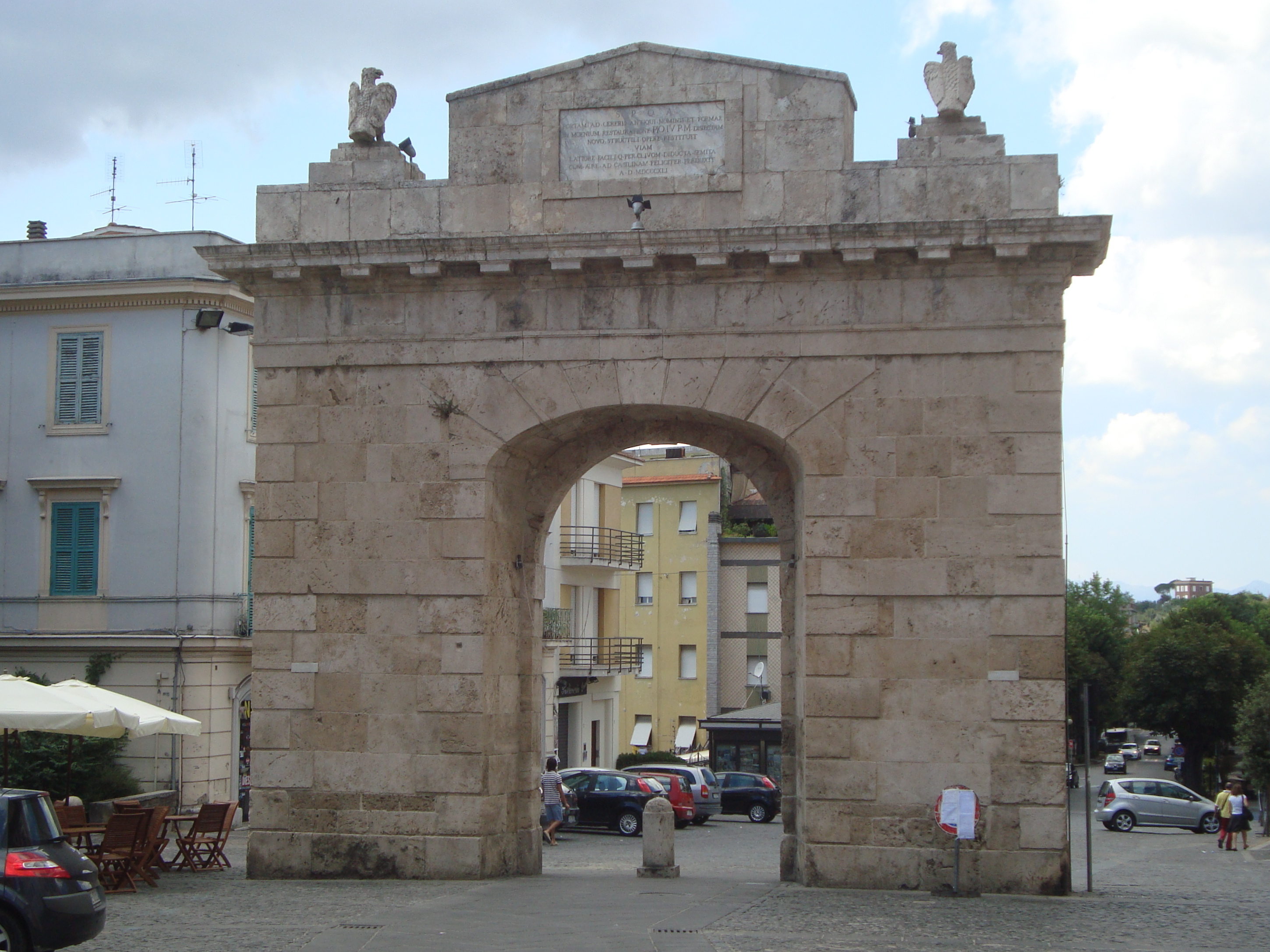 City gate of Anagni